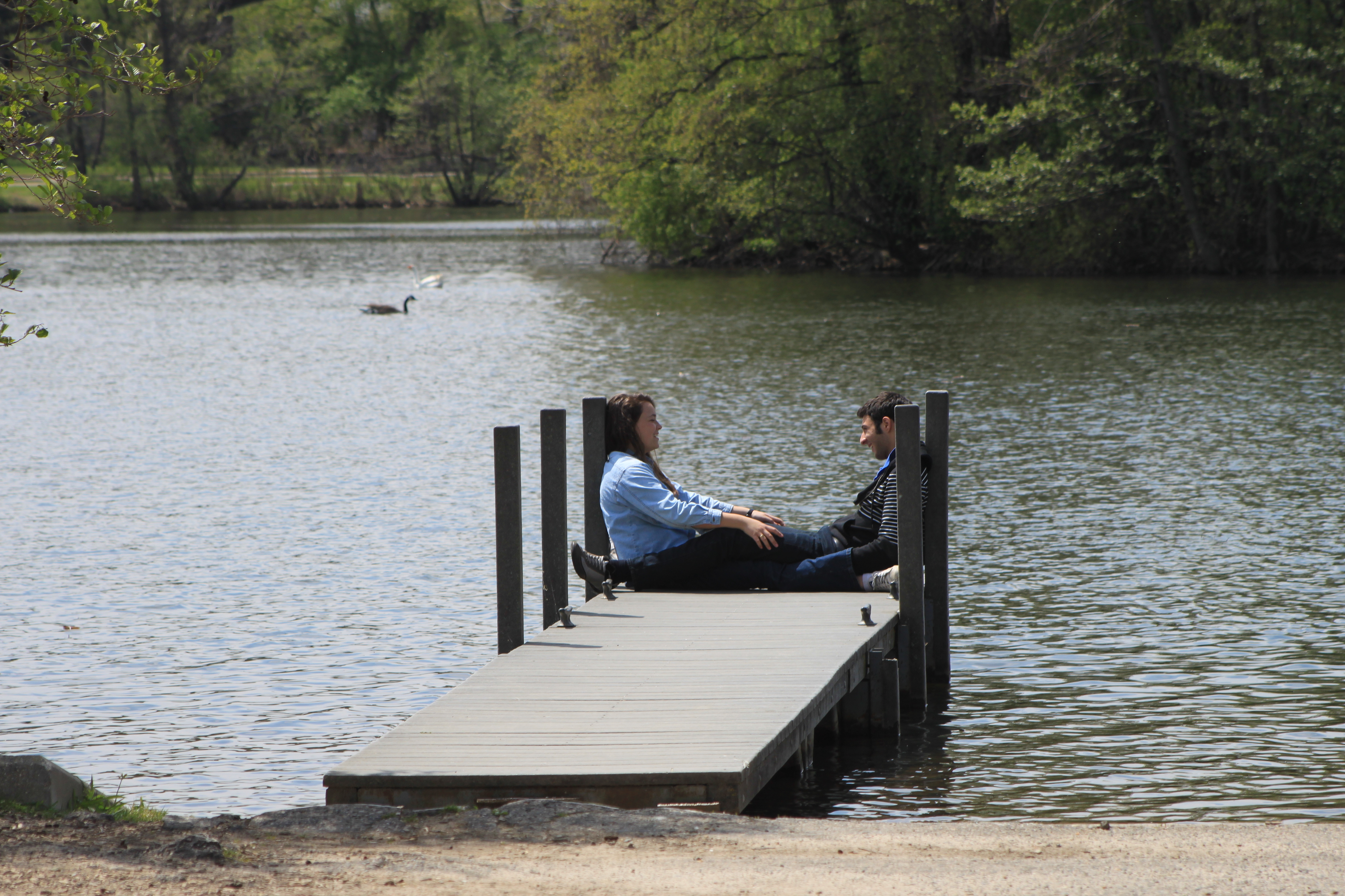 A couple on a boat dock on the Huron River in Gallup Park in Ann Arbor, Michigan.